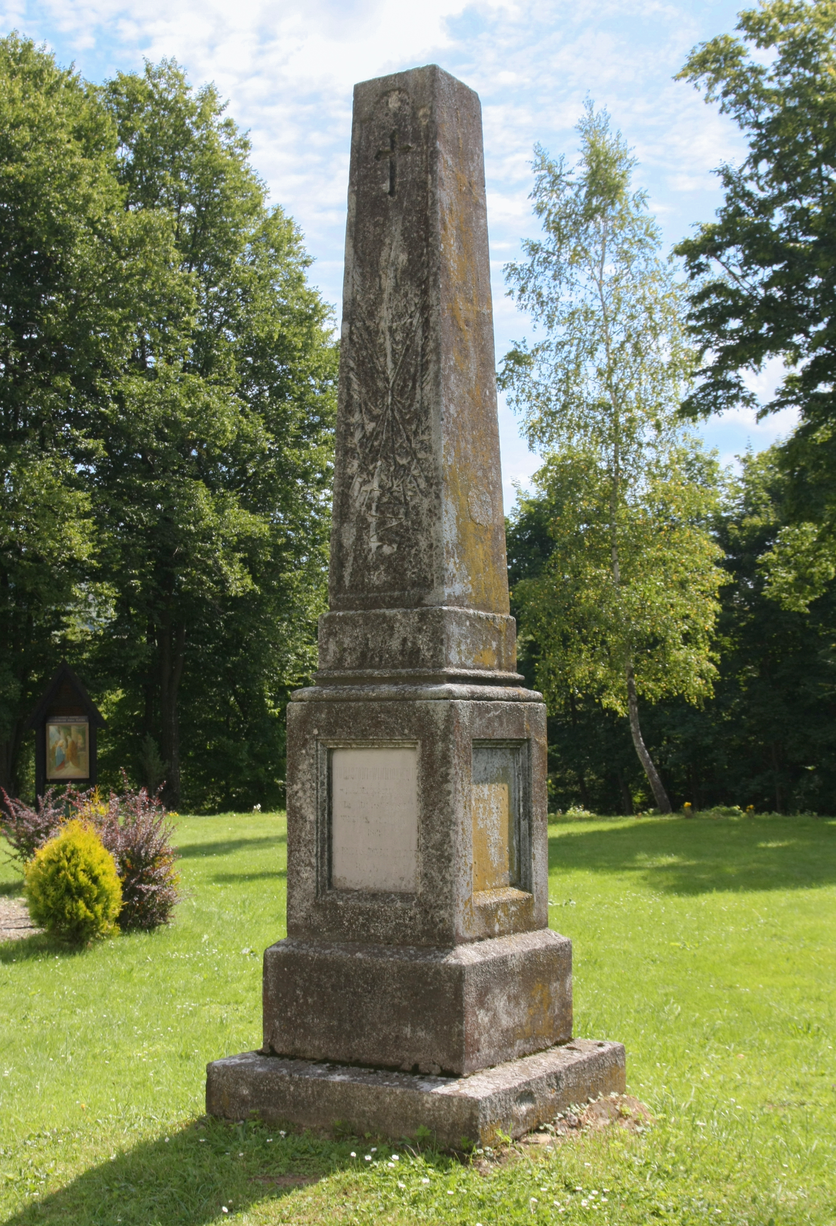 Sanctuary in Ustrzyki Dolne